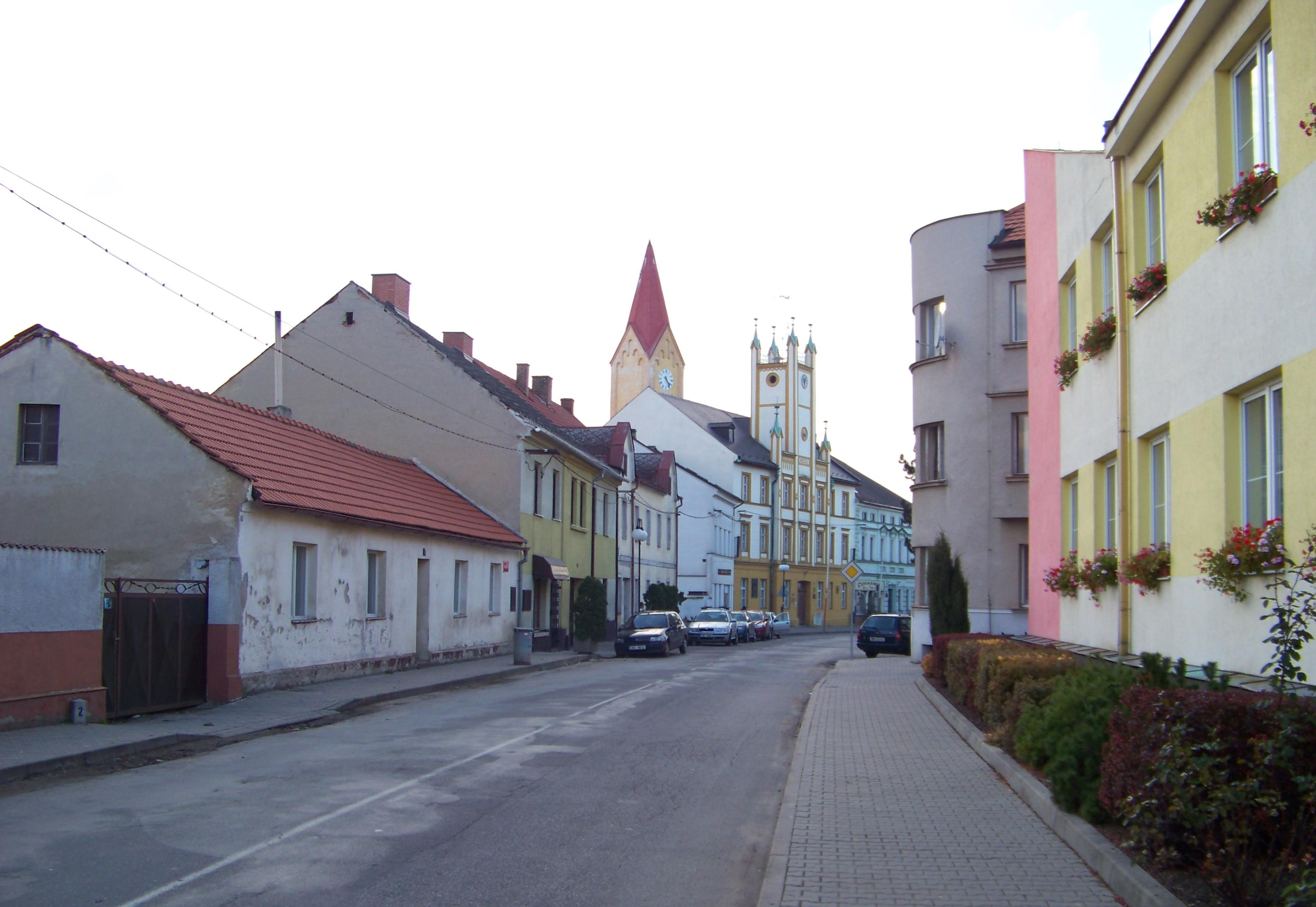 Mšeno, Mělník District, Central Bohemian Region, the Czech Republic. Boleslavská street, a view to town hall at Peace Square.